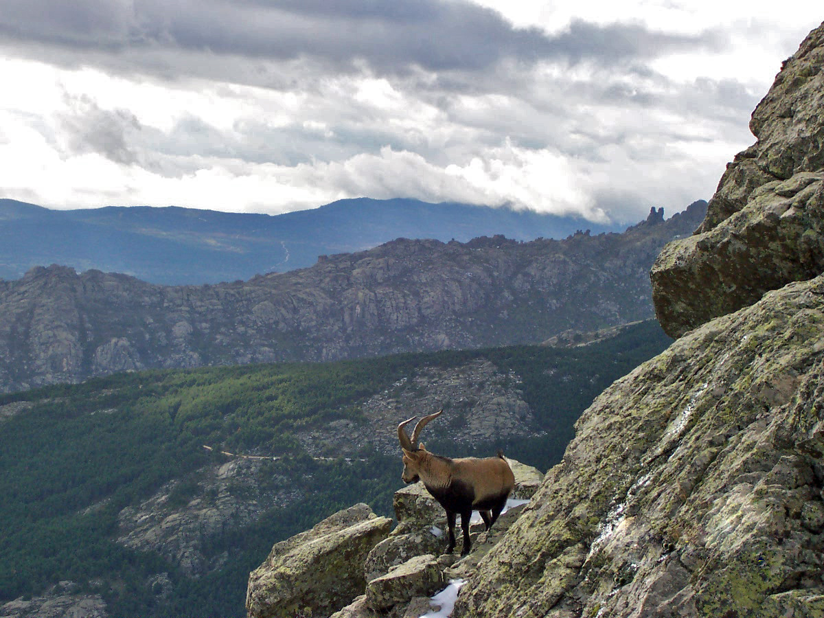 Male of Capra pyrenaica at La Najarra(Madrid)